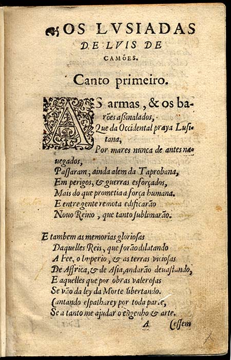 Page of Os Lusíadas, by Luís de Camões